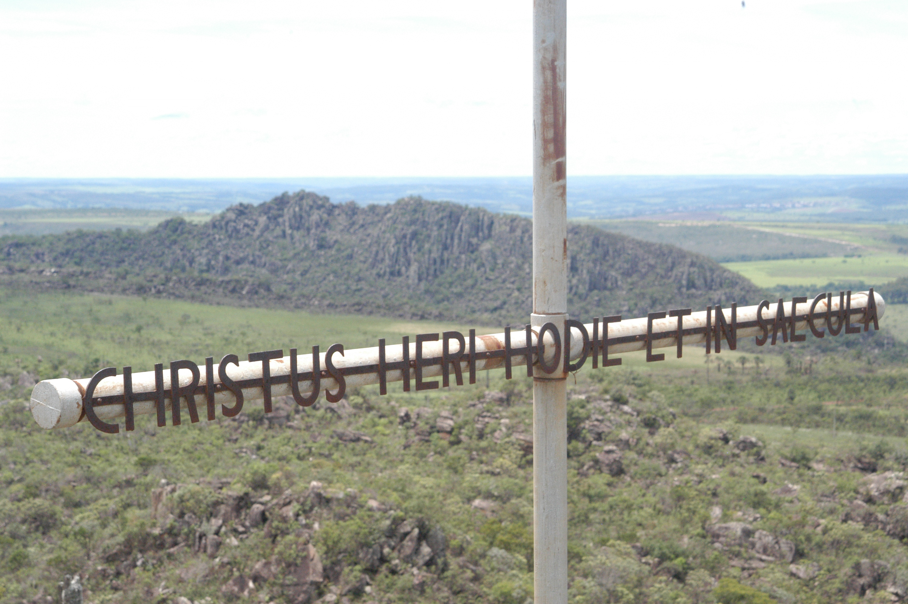 morro cabeludo (hairy montain) view from Piremneus top